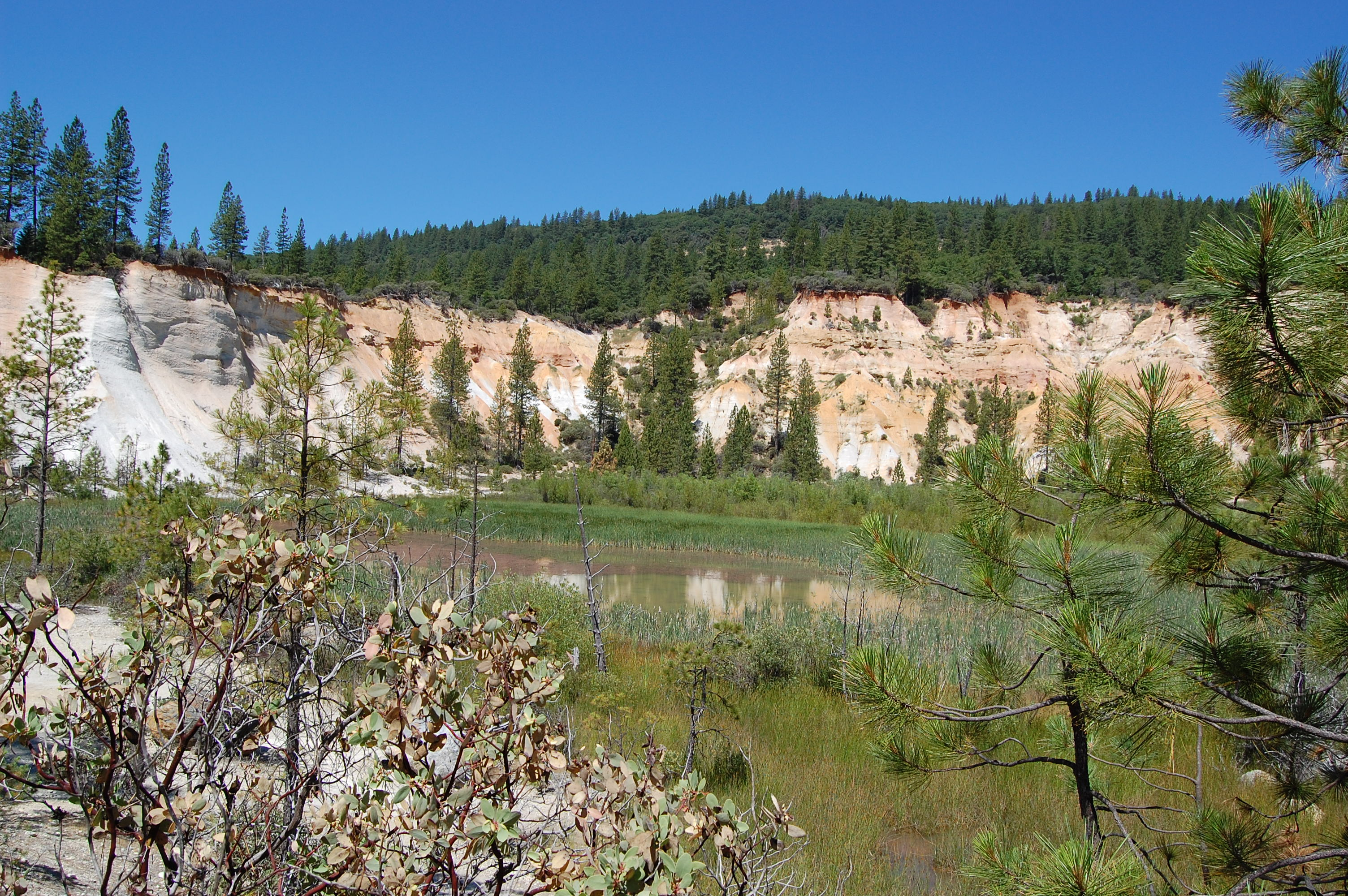 Malakoff Diggins-North Bloomfield Historic District